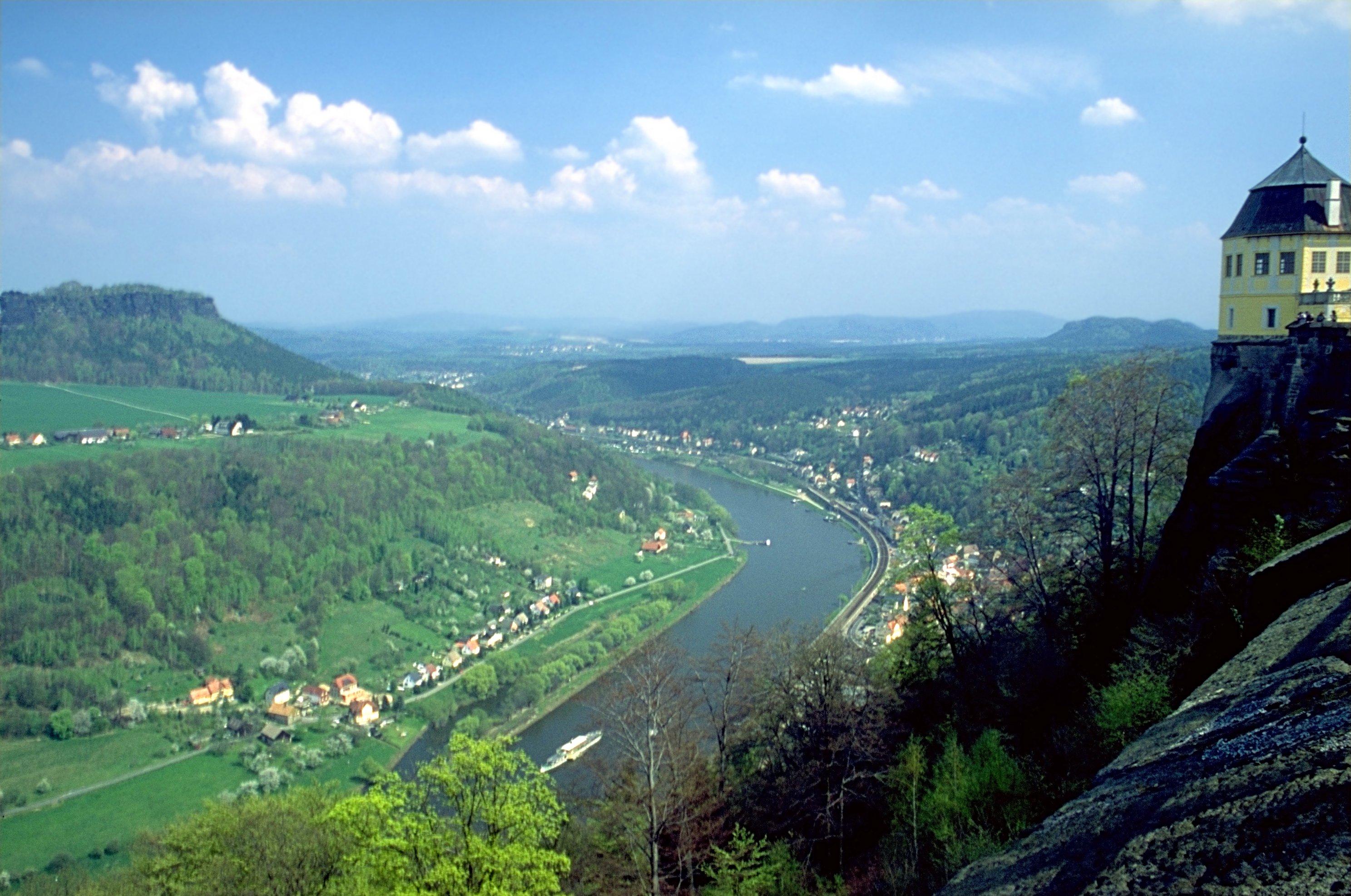 View from Königstein to river Elbe, Germany Photo was taken using the following technique: Film: Fuji Velvia Lens: 4/35-70 Filter: none Body: Minolta Dynax 7 Support: none Image with Information in English Bild mit Informationen auf Deutsch